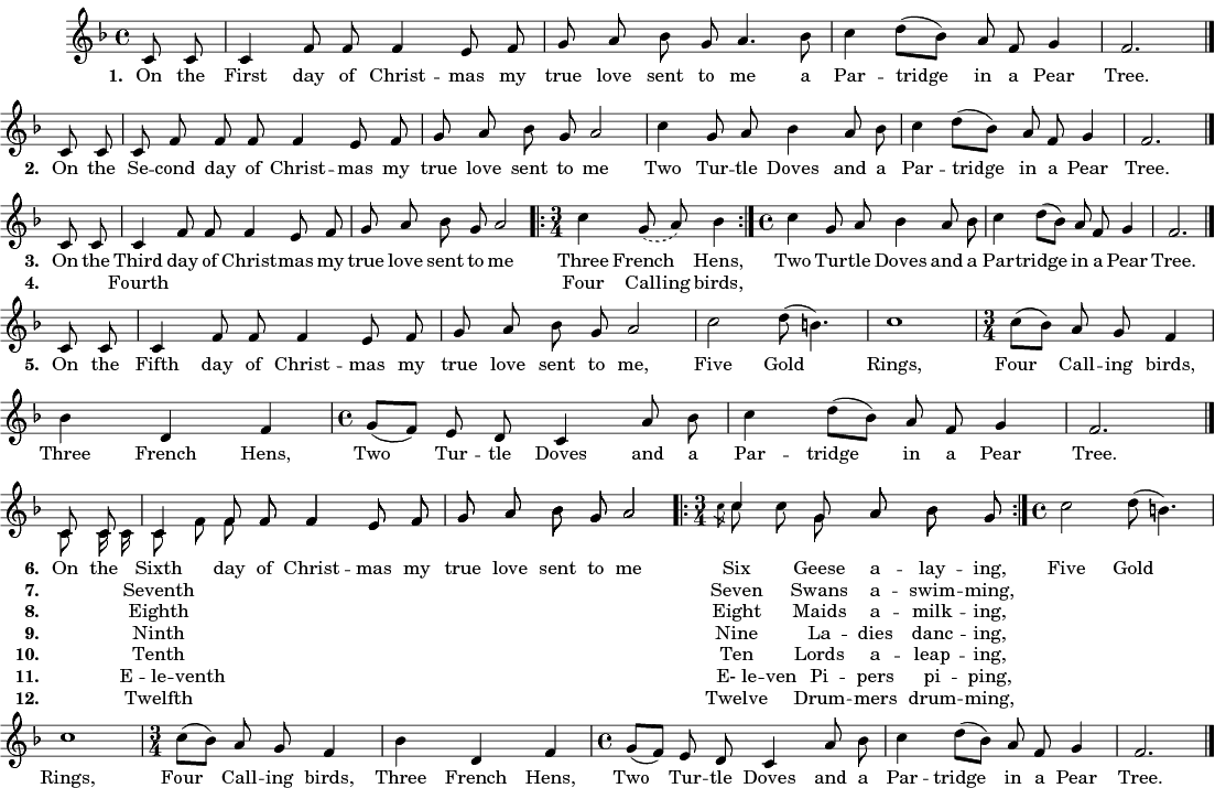 Melody of "The 12 days of Christmas" from Frederic Austin's 1909 arrangement